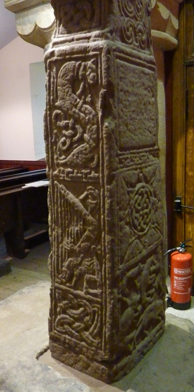 Dupplin Cross, St Serf's Church, Dunning, Perth and Kinross, Scotland - from north west